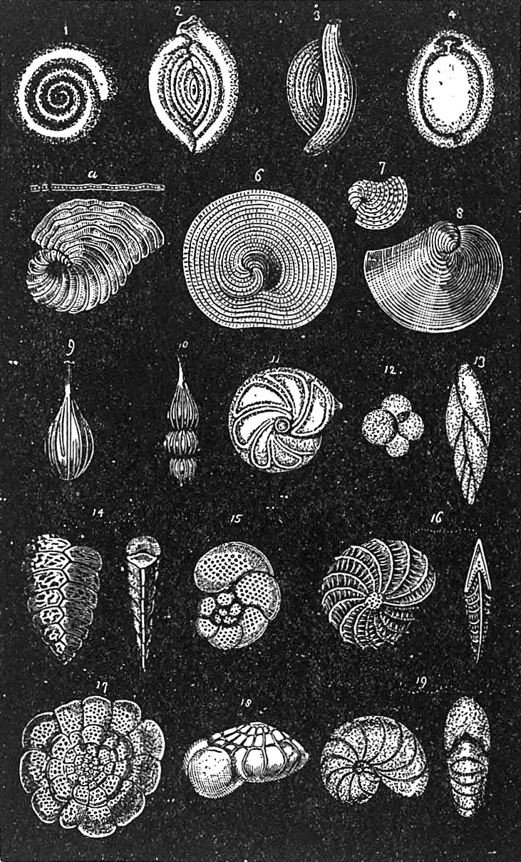 Various forms of calcareous Foraminifera. Legend: 1, Cornuspira. 2, Spiroloculina. 3, Triloculina. 4, Biloculina. 5, Peneroplis. 6, Orbiculina (cyclical). 7, Orbiculina (young). 8, Orbiculina (spiral). 9, Lagena. 10, Nodosaria. 11, Cristellaria. 12, Globigerina. 13, Polymorphina. 14, Textularia. 15, Discorbina. 16, Polystomella. 17, Planorbulina. 18, Rotalia. 19, Nonionina.